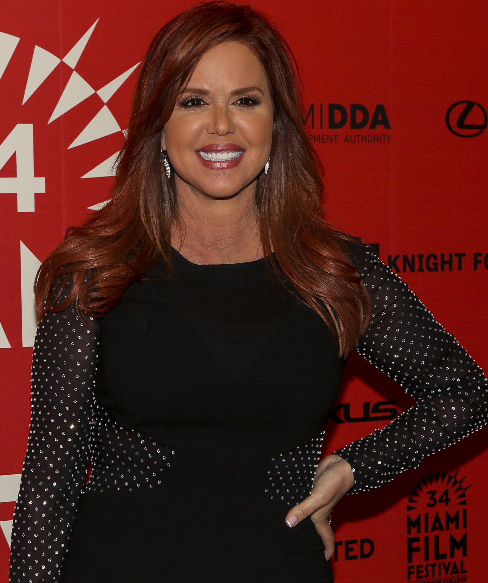 Maria Celeste Arraras at the 2017 Miami International Film Festival Opening Night Gala for Norman, The Moderate Rise and Tragic Fall of a New York Fixer